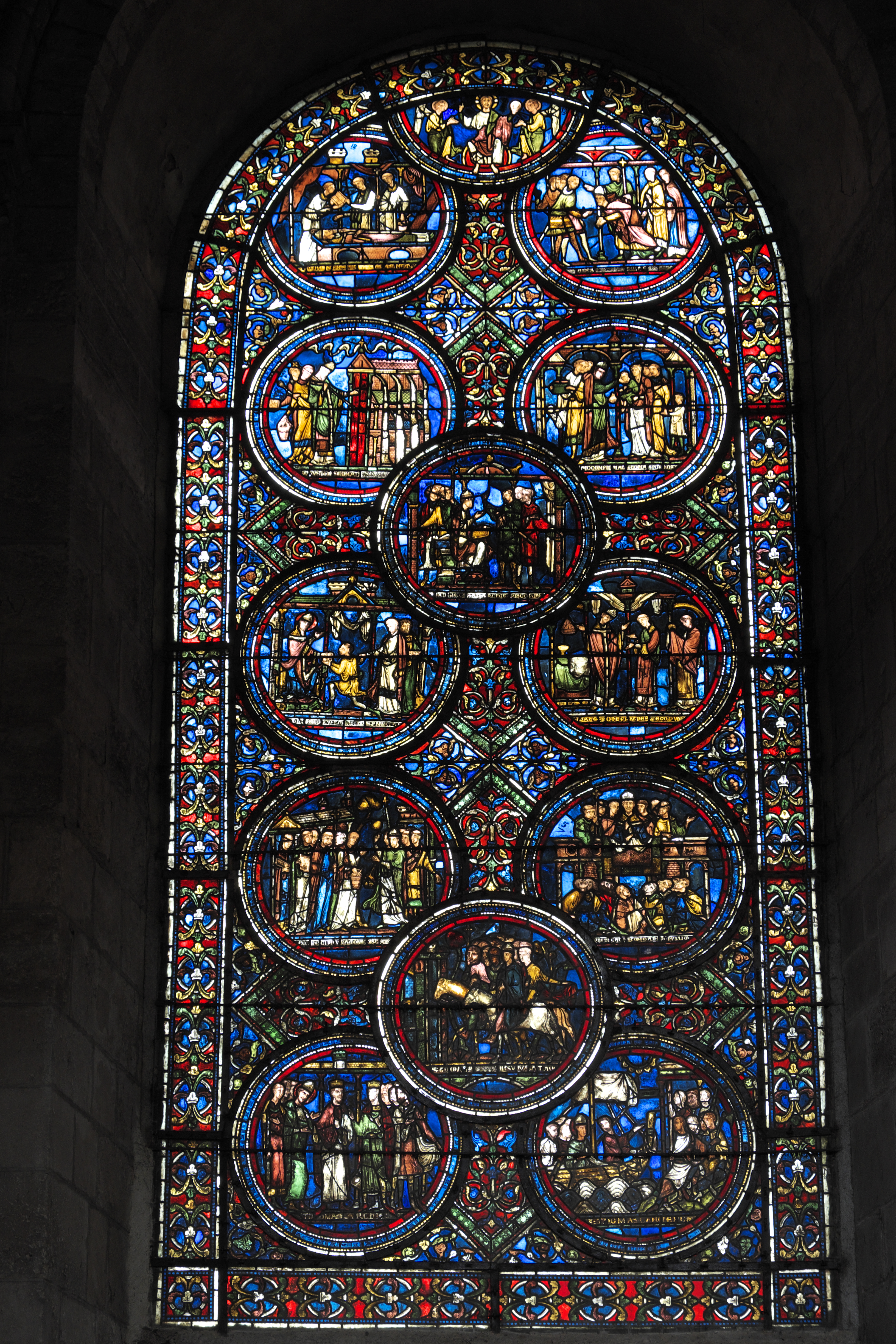 Sens Cathedral, Yonne. Stained glass window (bay 23), early 13th century, Scenes from the Life of Saint Thomas Becket, His Meeting with Henry II and his Murder in Canterbury Cathedral